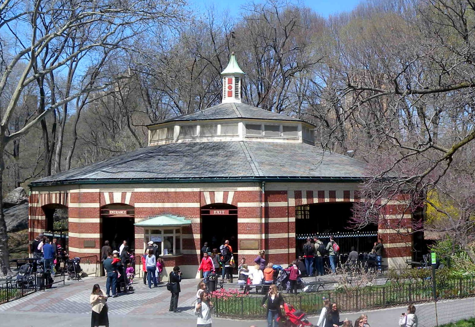 Looking north from carriage road at carousel on a sunny spring midday.